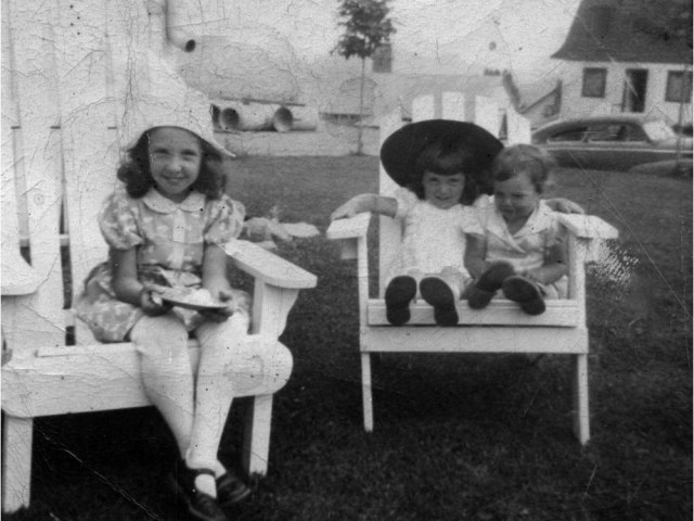 Jane, Anna and Kate McGarrigle in Ste-Adèle, 1948